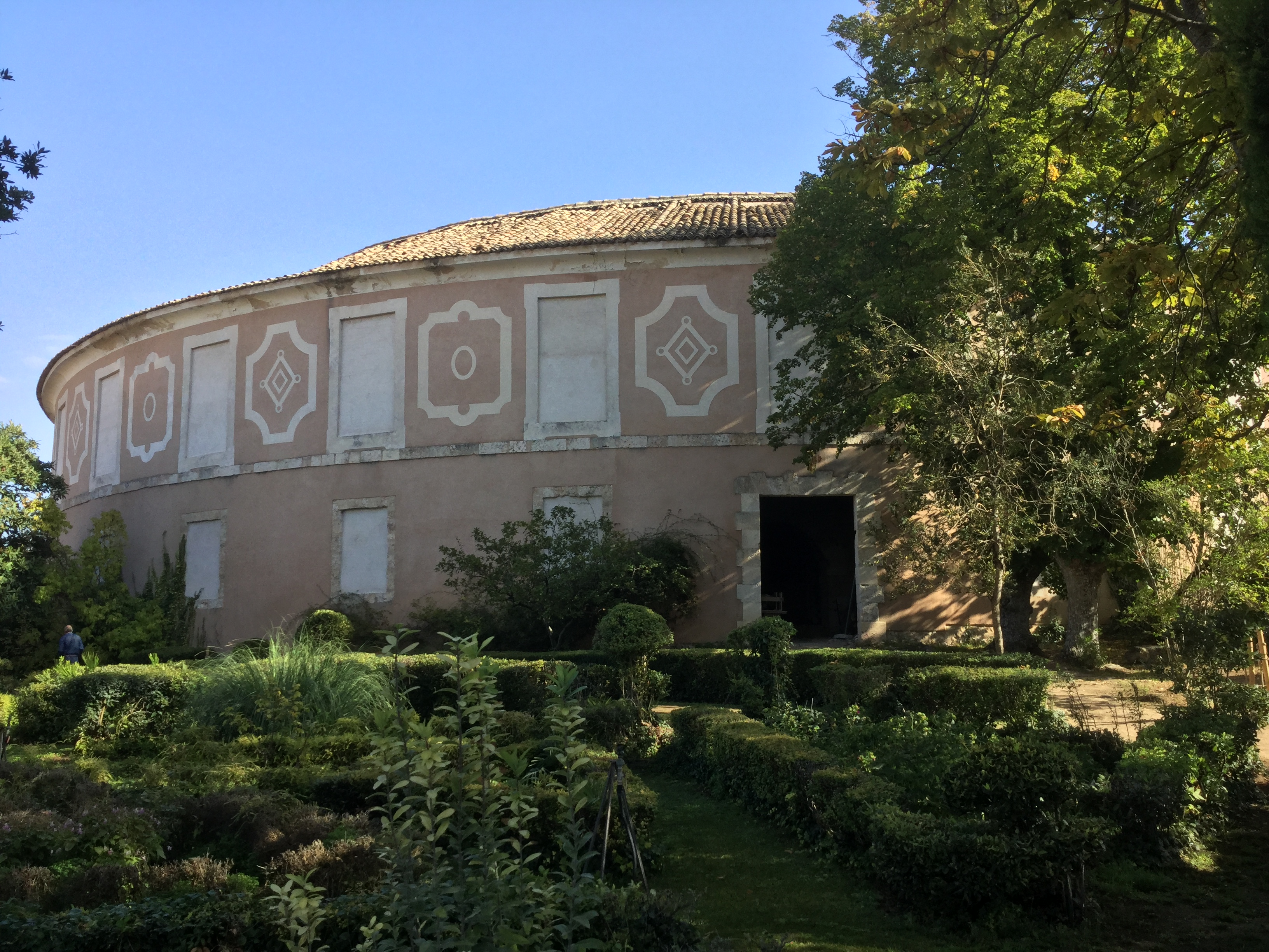 Bâtiment circulaire de la fabrique et des jardins